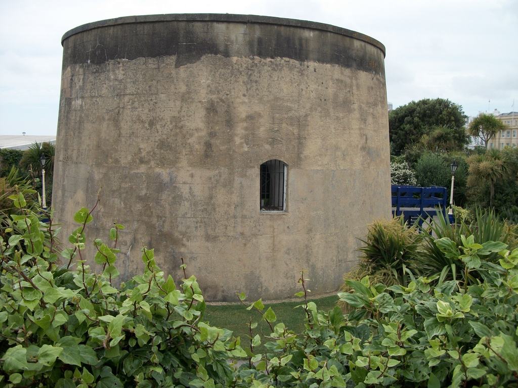 The Wish Tower, Grand Parade, Eastbourne. Photo was taken on July 17, 2010 using a Kodak EasyShare C182.